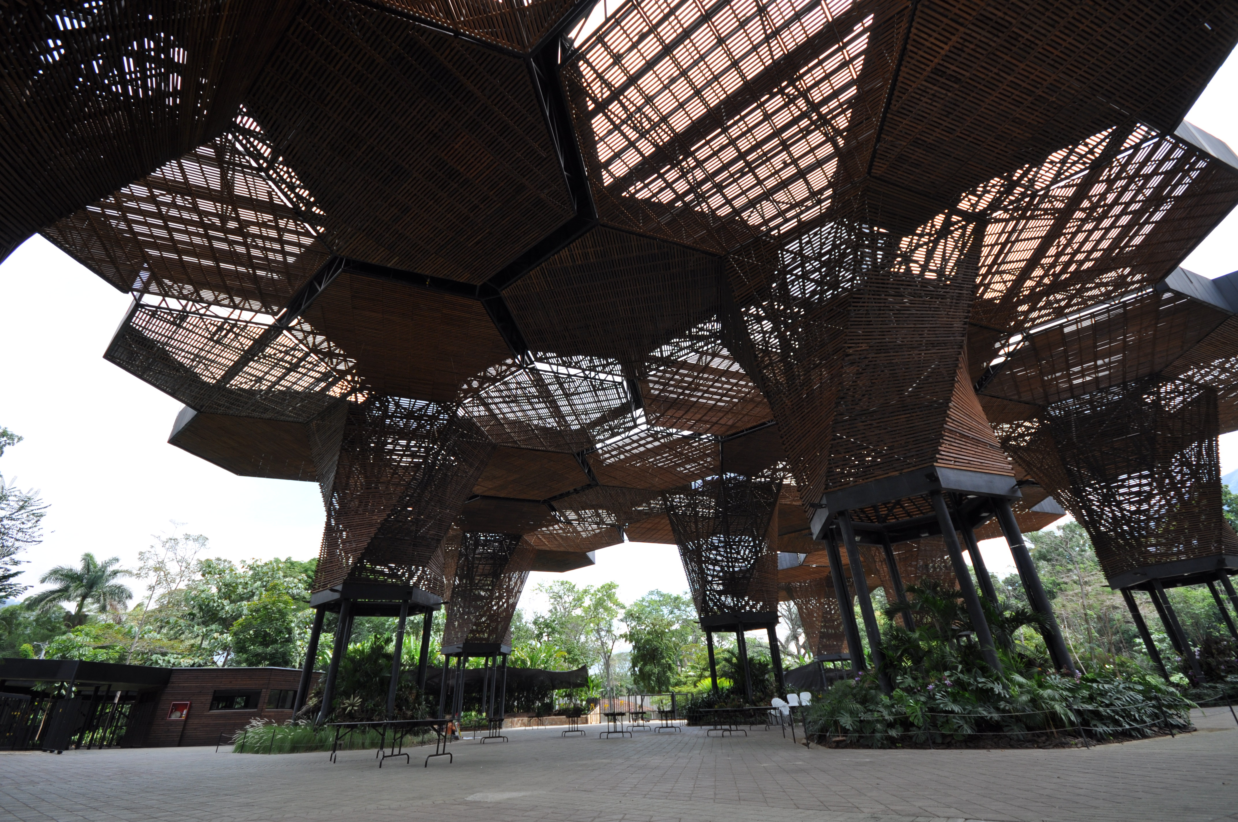 Orchidiarium - Medellin Botanical Gardens (Colombia)